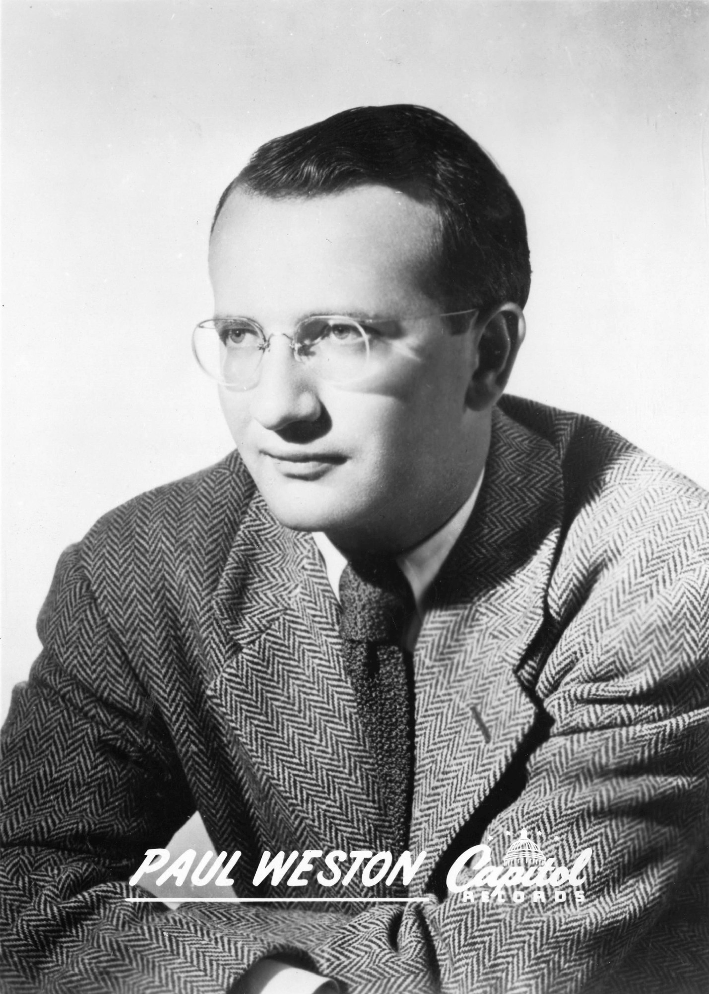 Photo of Paul Weston circa 1940s-1950s from his time as an executive for the newly-formed Capitol Records. Capitol Records issued promotional photos of their staff and performers; this photo is one of them.